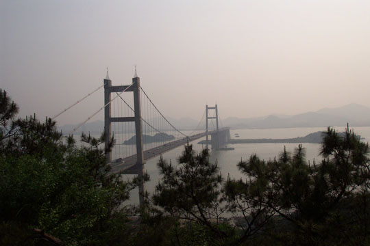 Humen Bridge as seen from Zhenyuan Fort